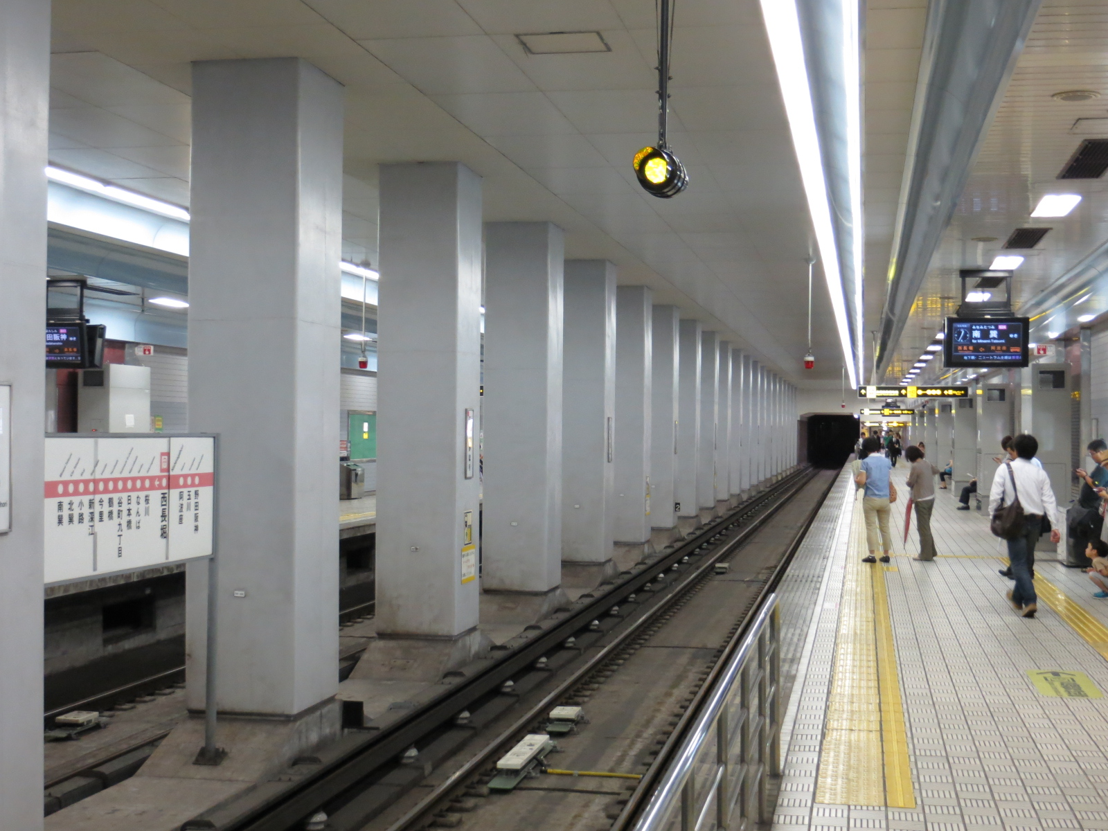 Platform from Nishi-Nagahori Station (S14), Sennichimae Line.